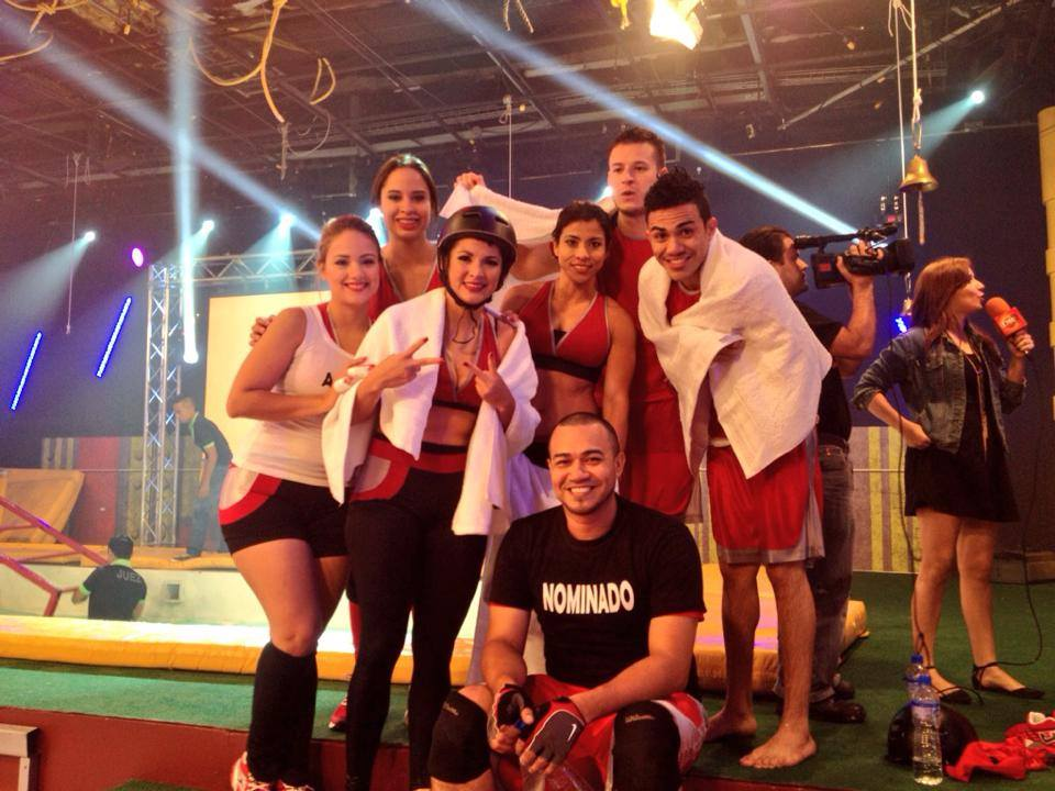 Calle7 Vip Honduras